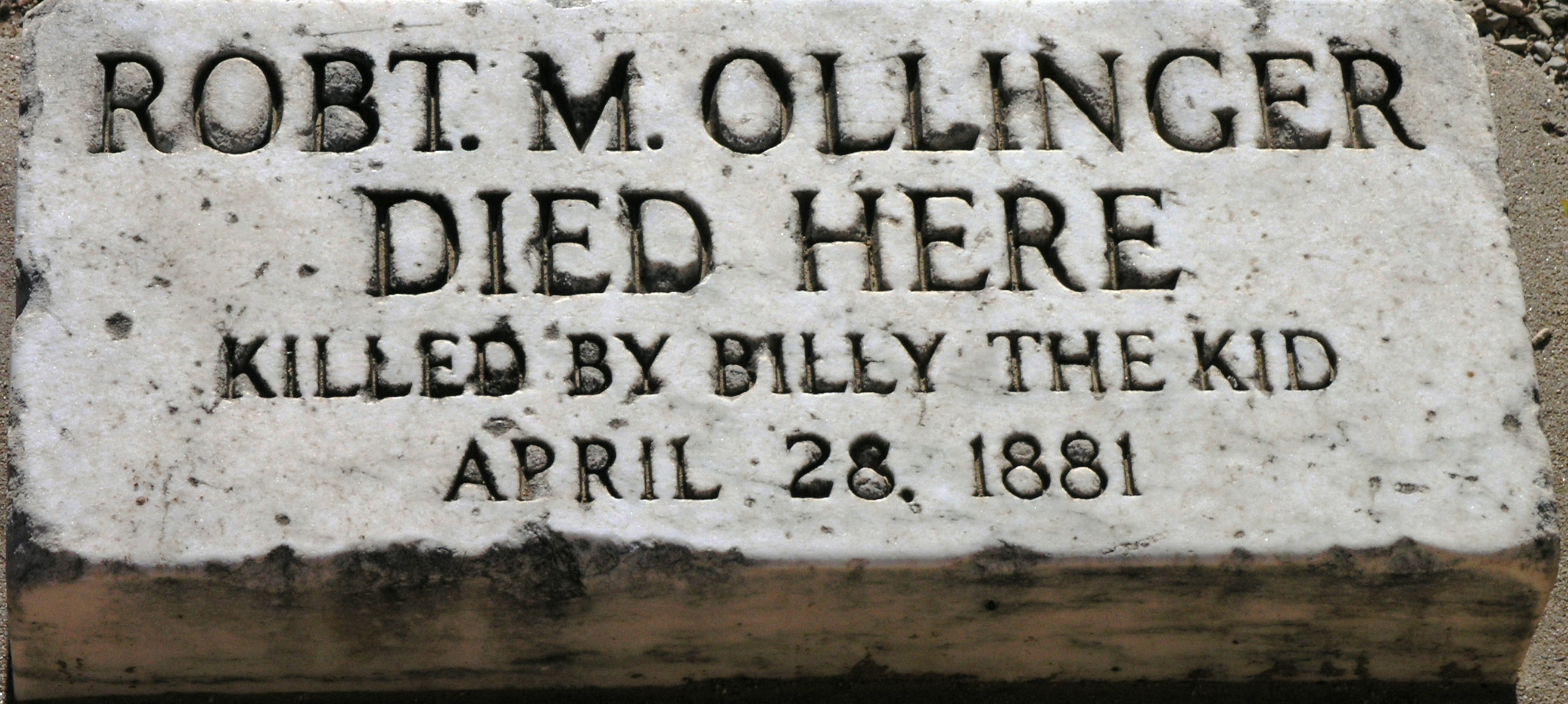 Lincoln, New Mexico